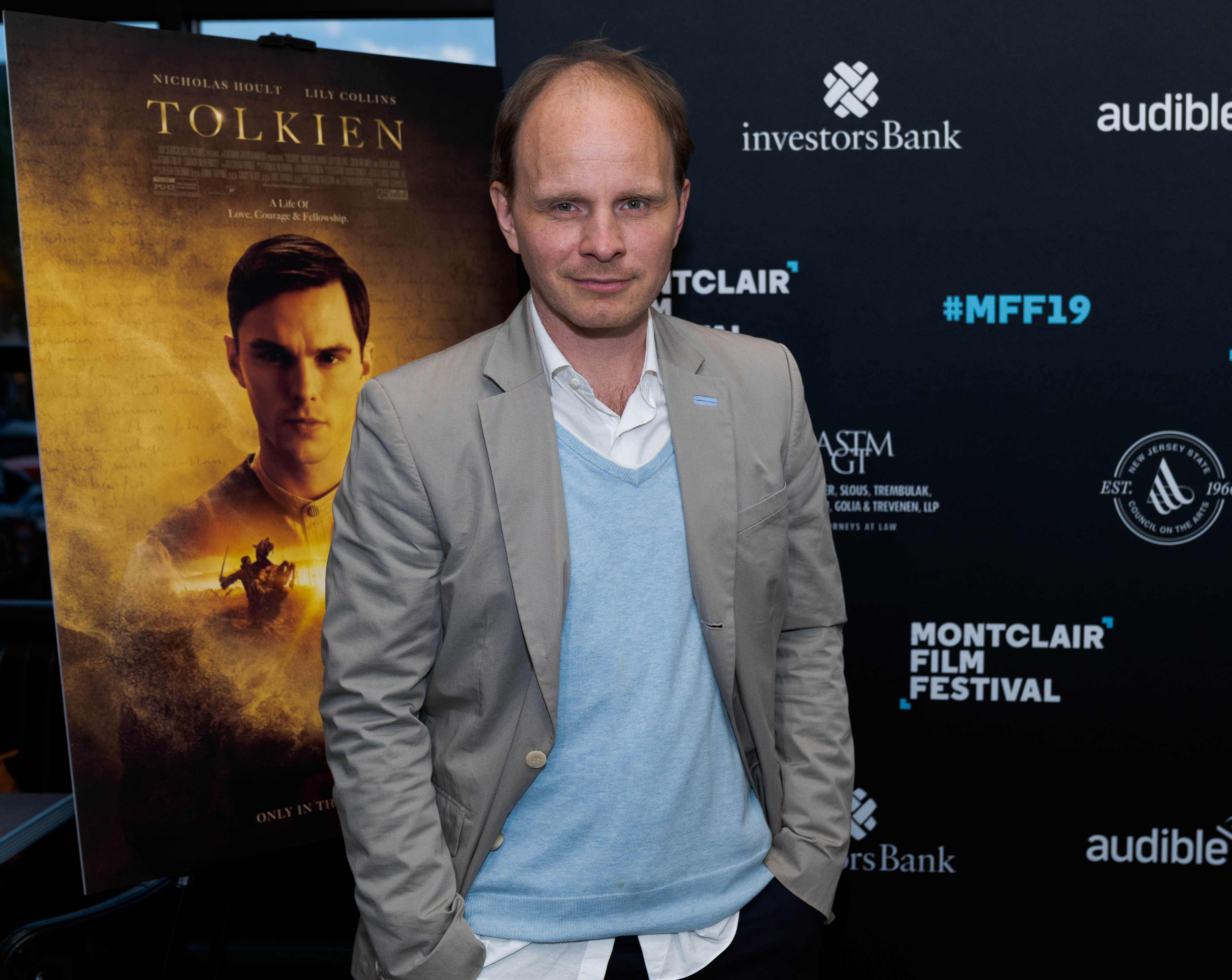 Photography by Fred Trauerts